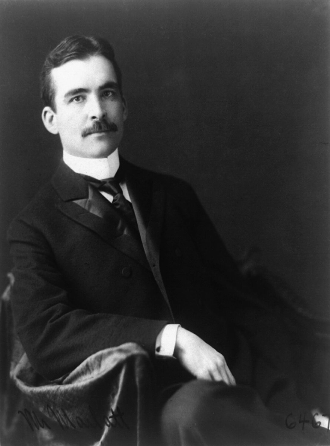 Title: Charles L. Marlatt, three-quarter length portrait, seated, facing slightly right Abstract/medium: 1 photographic print.